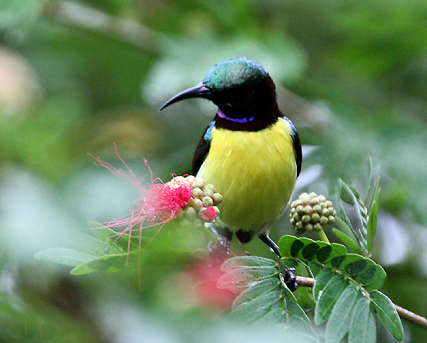 Purple-rumped Sunbird (Leptocoma zeylonica) in Kolkata, West Bengal, India.